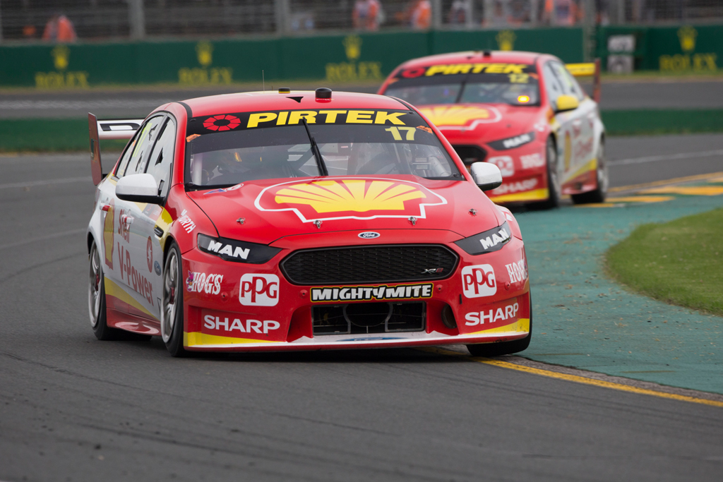 Scott McLaughlin, DJR Team Penske, Ford Falcon FG X. This was taken at the 2017 Australian Grand Prix